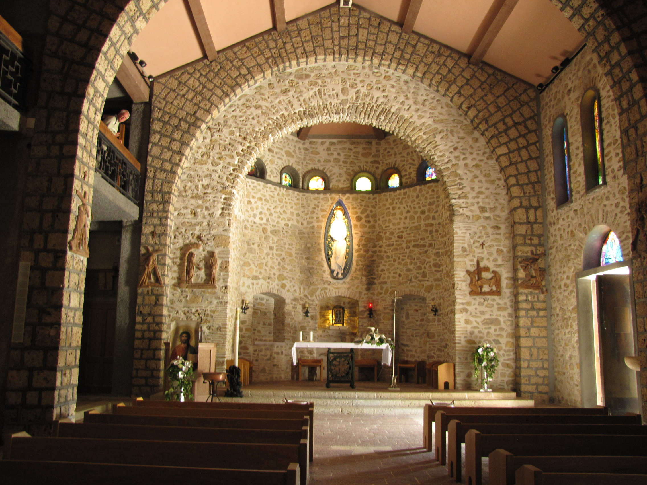 Franciscan sanctuary of Greccio (Province of Rieti, Lazio, Italy)